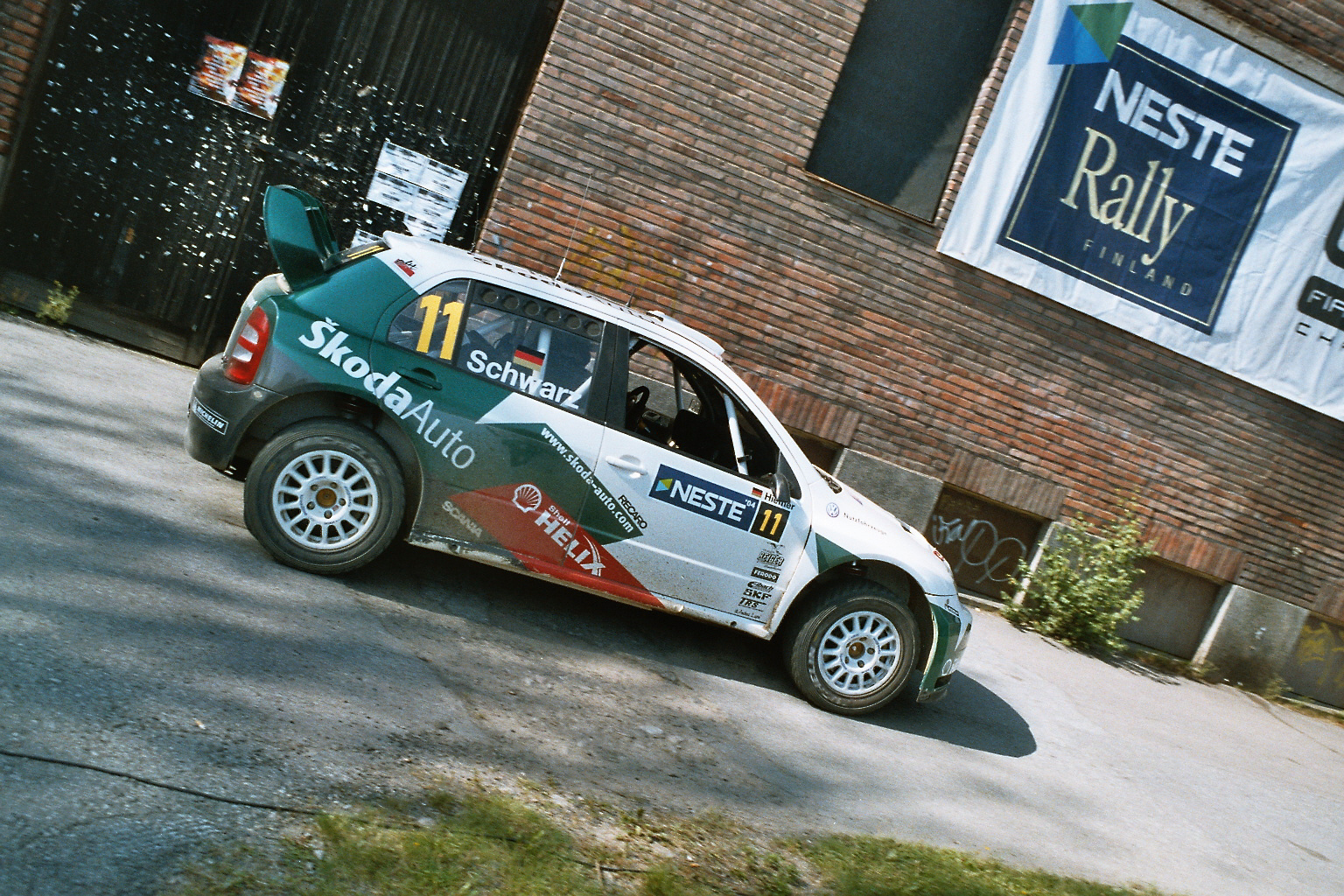 Action from the service park during the 2004 Rally Finland.